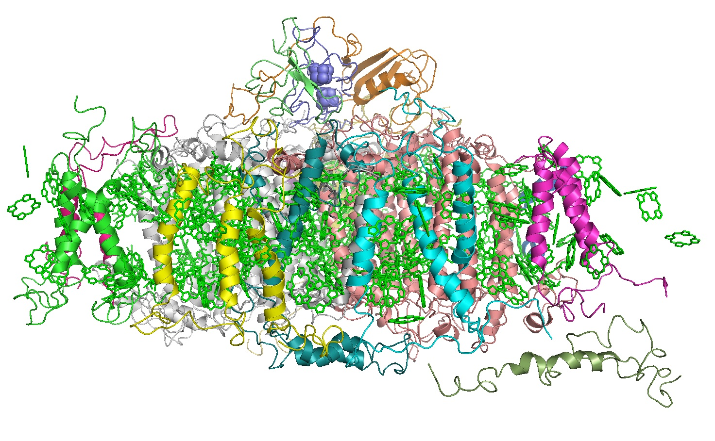 Structure of Photosystem I created with Pymol from PDB 2o01